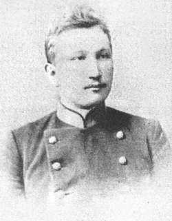 President of Ukraine-in-exile Andriy Livytskyi.